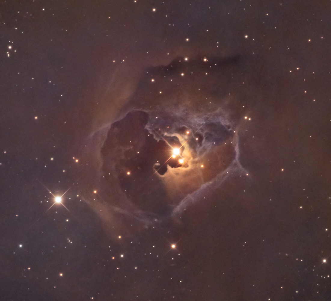 A Herbig Ae/Be Star Optics 32-inch Schulman Telescope (RCOS) Camera SBIG STX16803 CCD Camera Filters Astrodon Gen II Date November - December 2015 Location Mount Lemmon SkyCenter Exposure LRGB = 14 : 7 : 7 : 7 Hours Acquisition Astronomer Control Panel (ACP), Maxim DL/CCD (Cyanogen), FlatMan XL (Alnitak) Processing CCDStack, Photoshop CC, PixInsight Credit Line & Copyright Adam Block/Mount Lemmon SkyCenter/University of Arizona